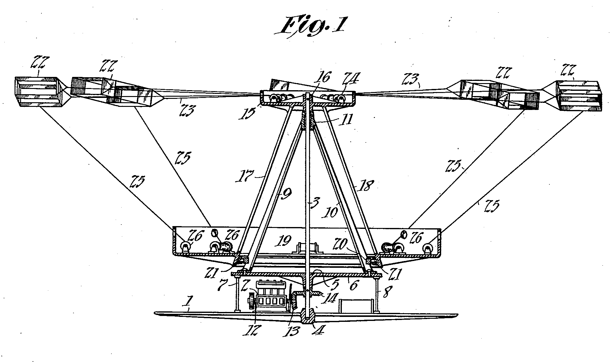 Flying-machine by Thomas A. Edison User:MichaelFrey/US970616